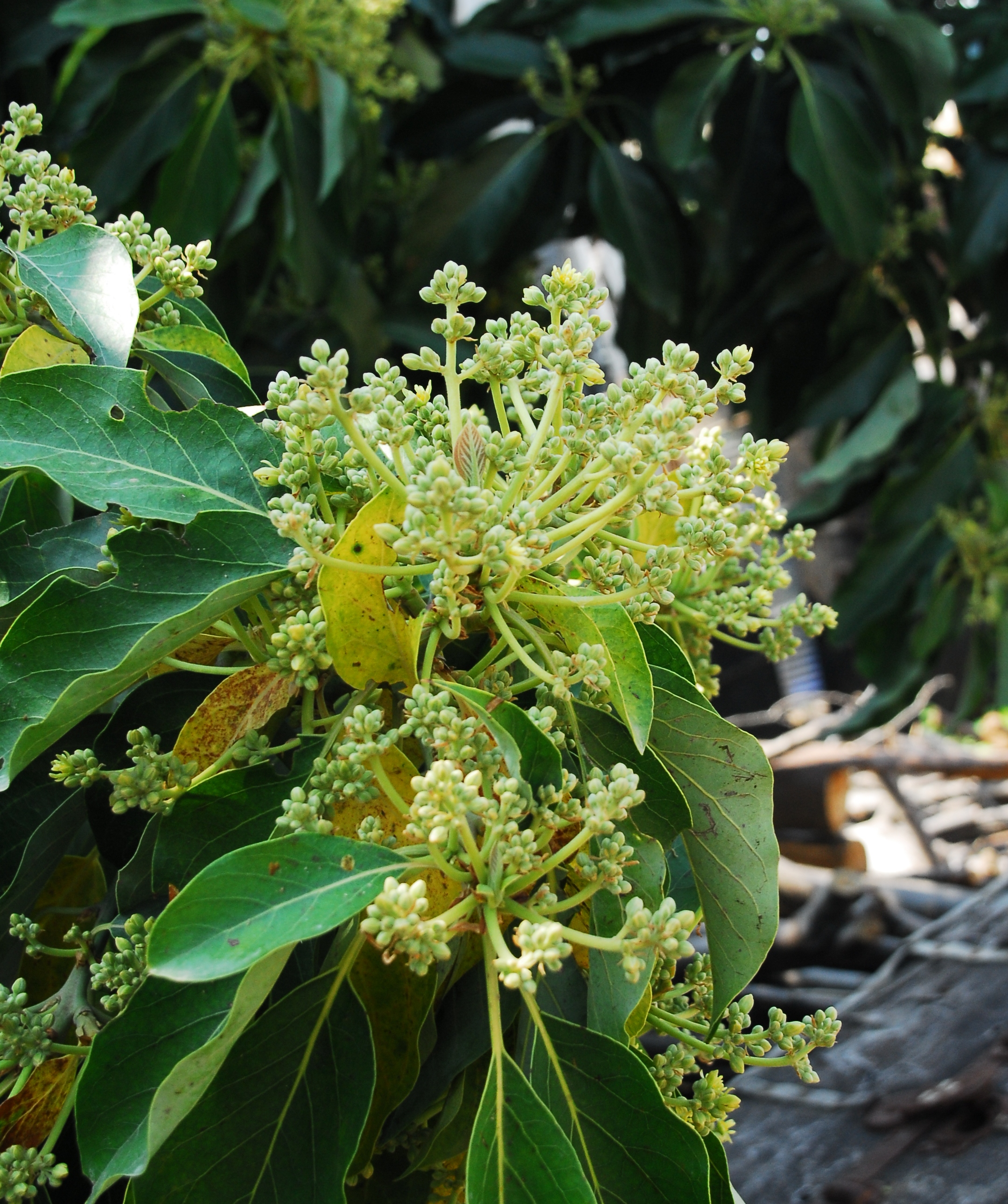 Agriculture in Israel